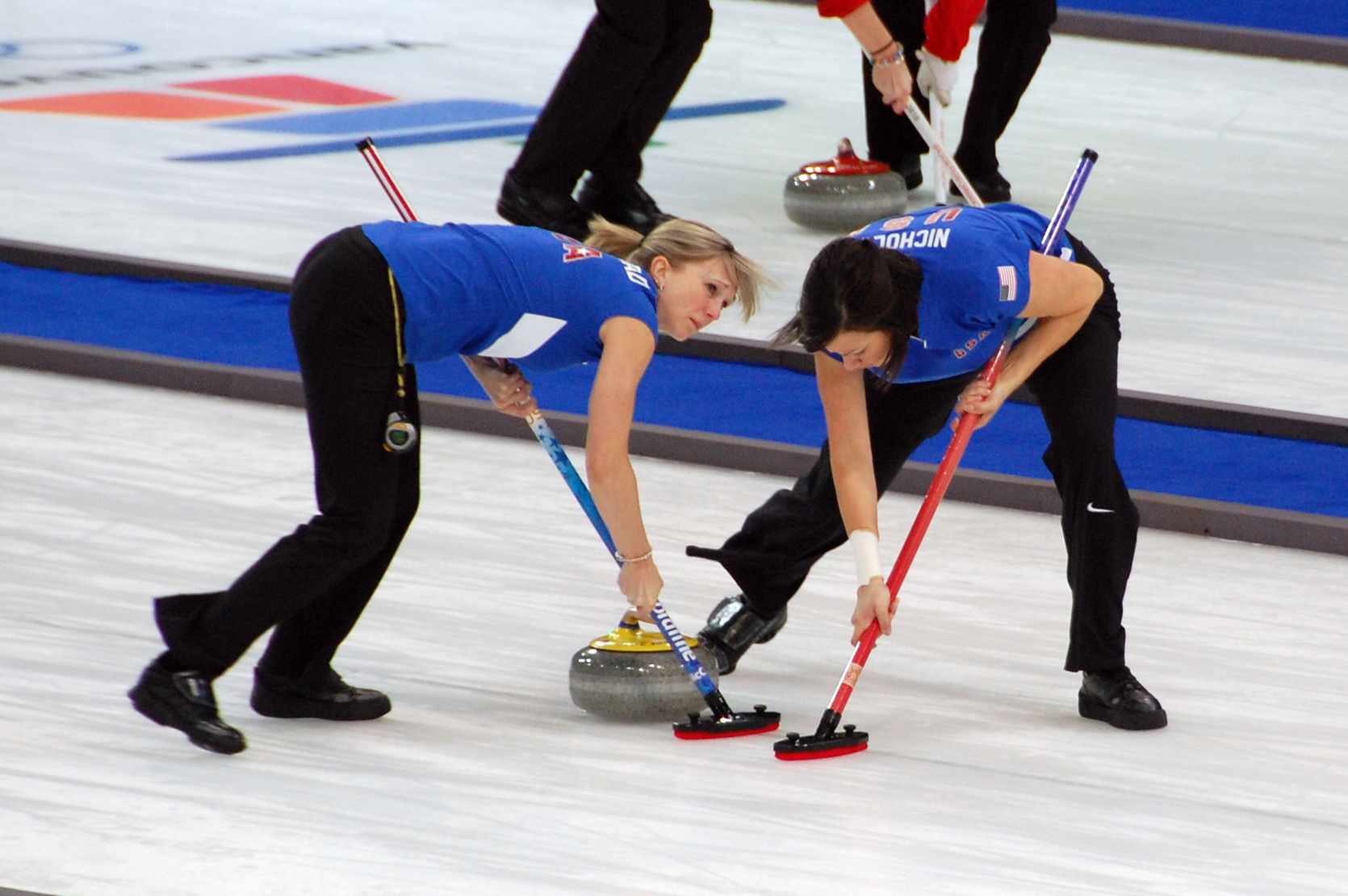 Nicole Joraanstad and Natalie Nicholson sweep for Team USA at the Vancouver Olympics.